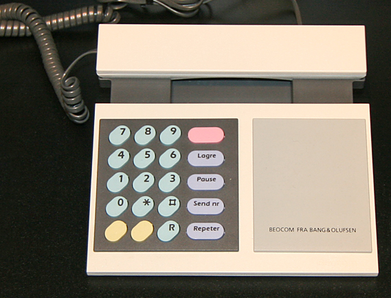 Telephone from Bang & Olufsen. (Norwegian Technology Museum, Oslo.)